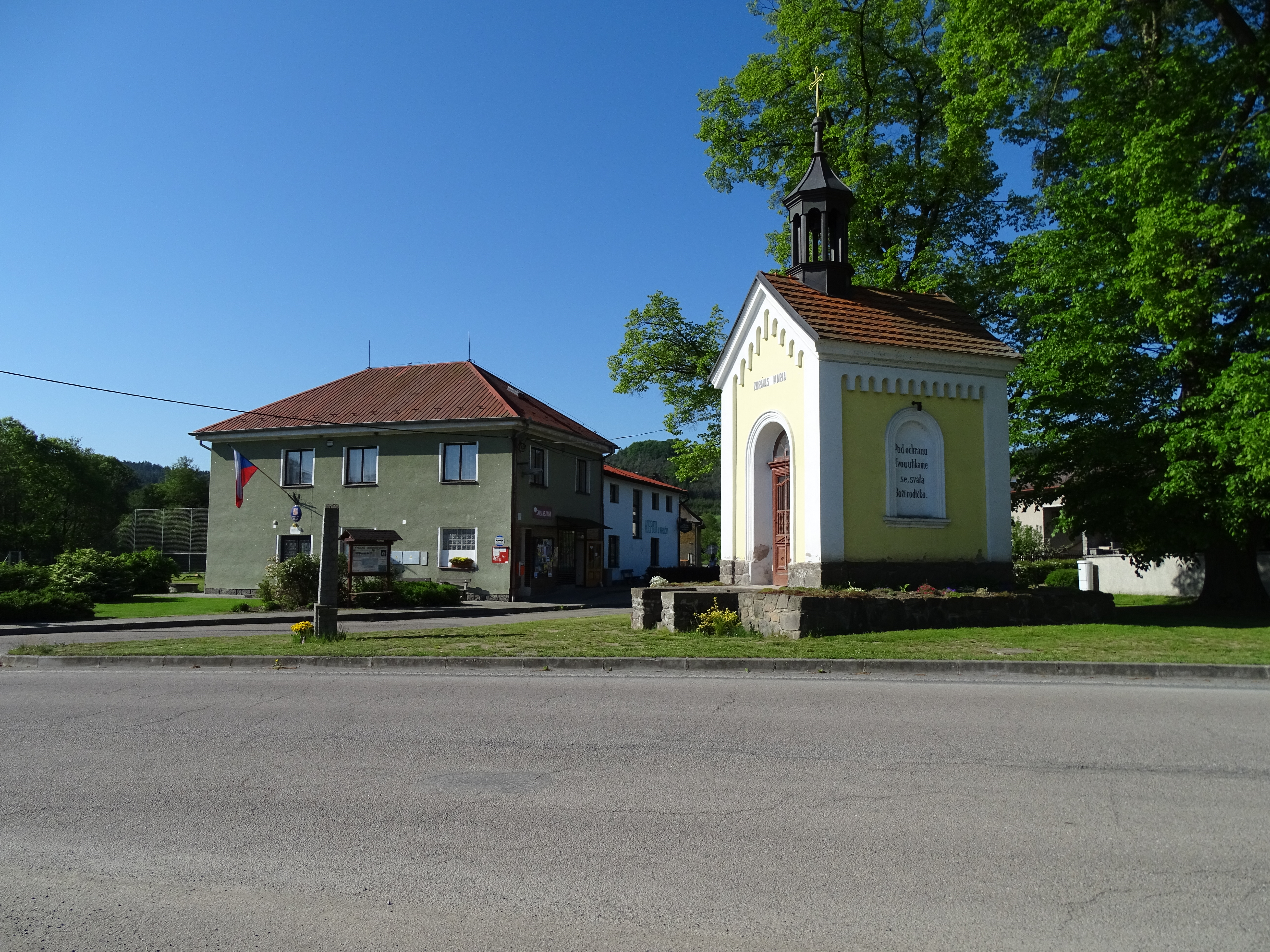 Chrášťany, Benešov District, Central Bohemian Region, Czech Republic. A common.